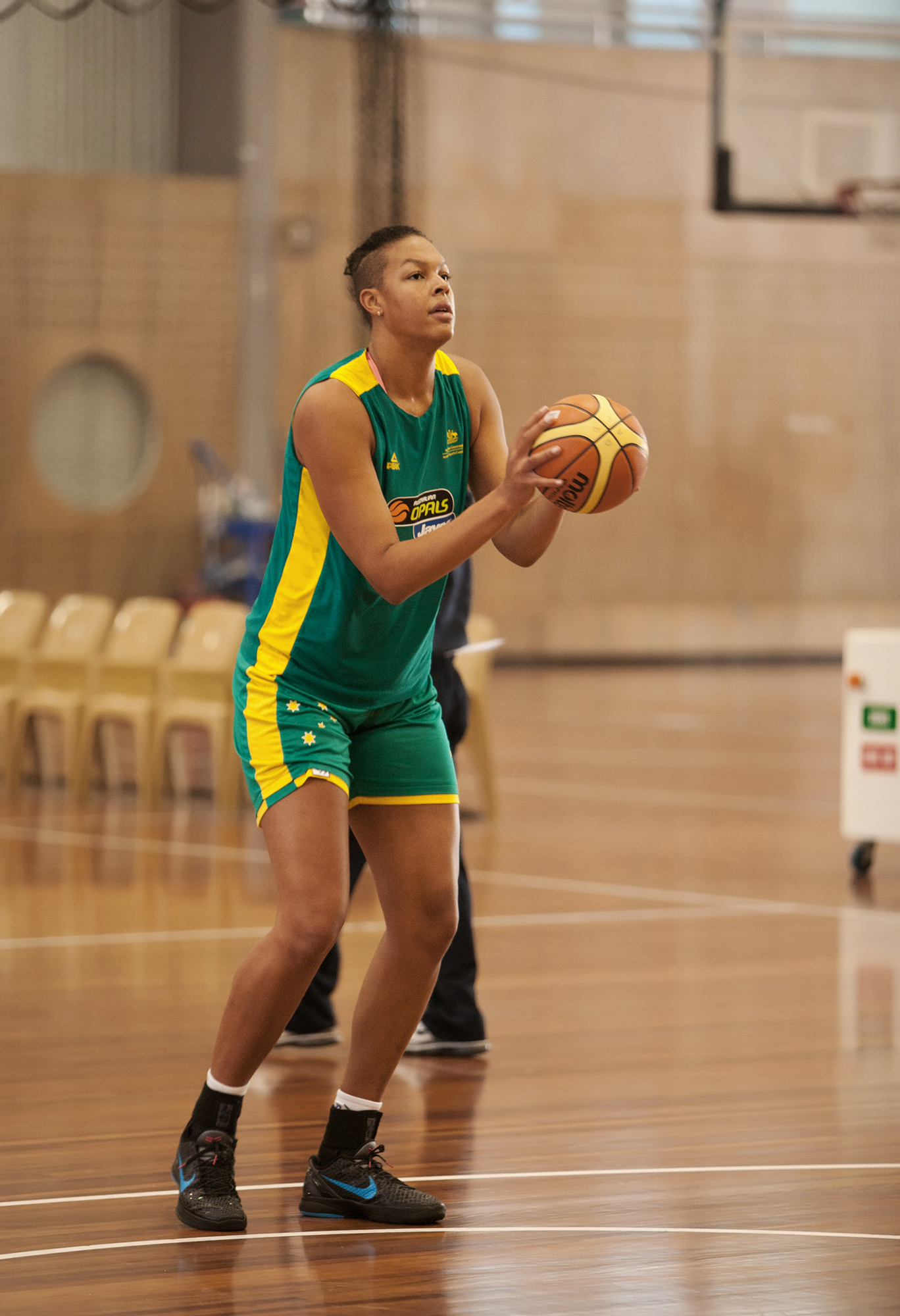 Member of the Opals, Canberra, Australia.